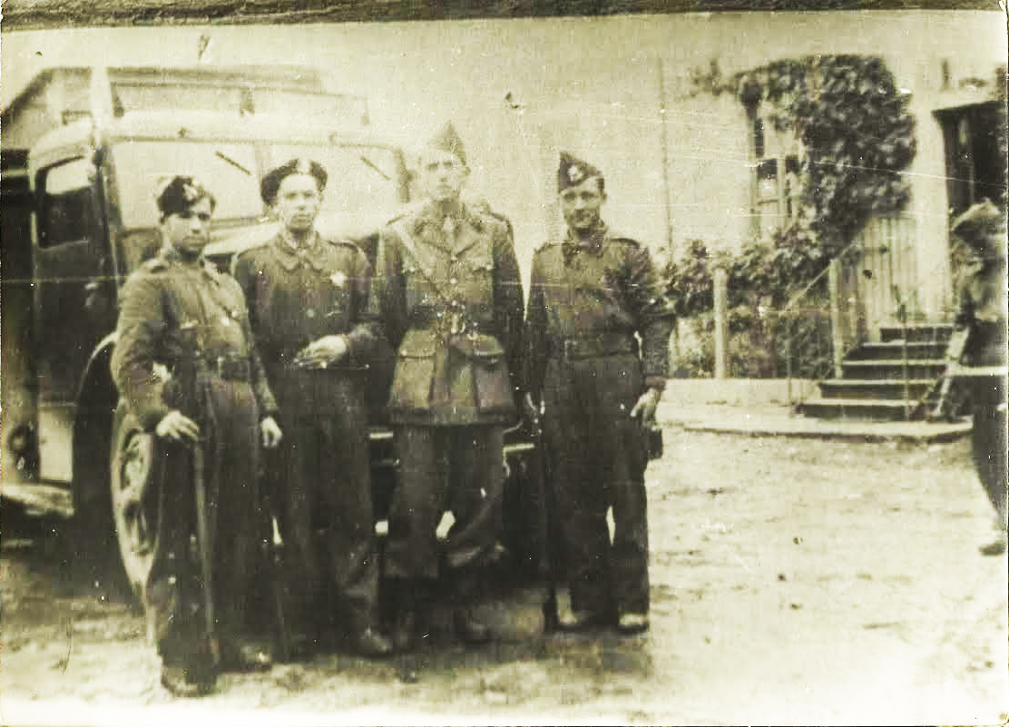 Ahmadiyya Jabrayilov in the French Resistance